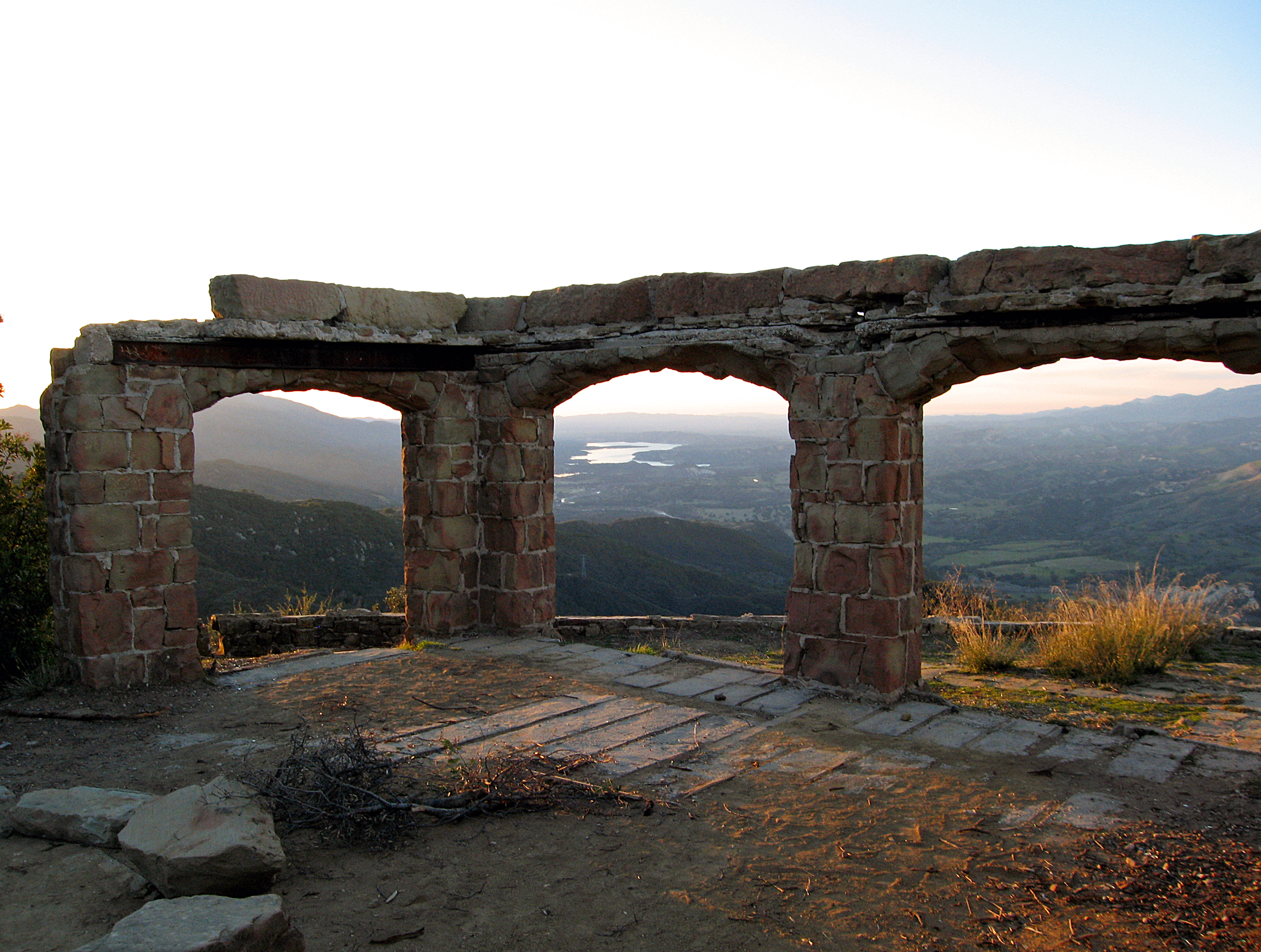 Knapp's Castle ruins — in the Santa Ynez Mountains, Los Padres National Forest, Santa Barbara County, California.